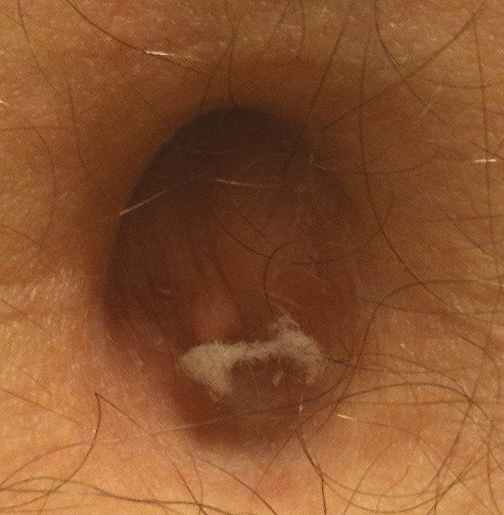 Natural occurrence of lint in the navel of a healthy, virile adult male Wikipedian.